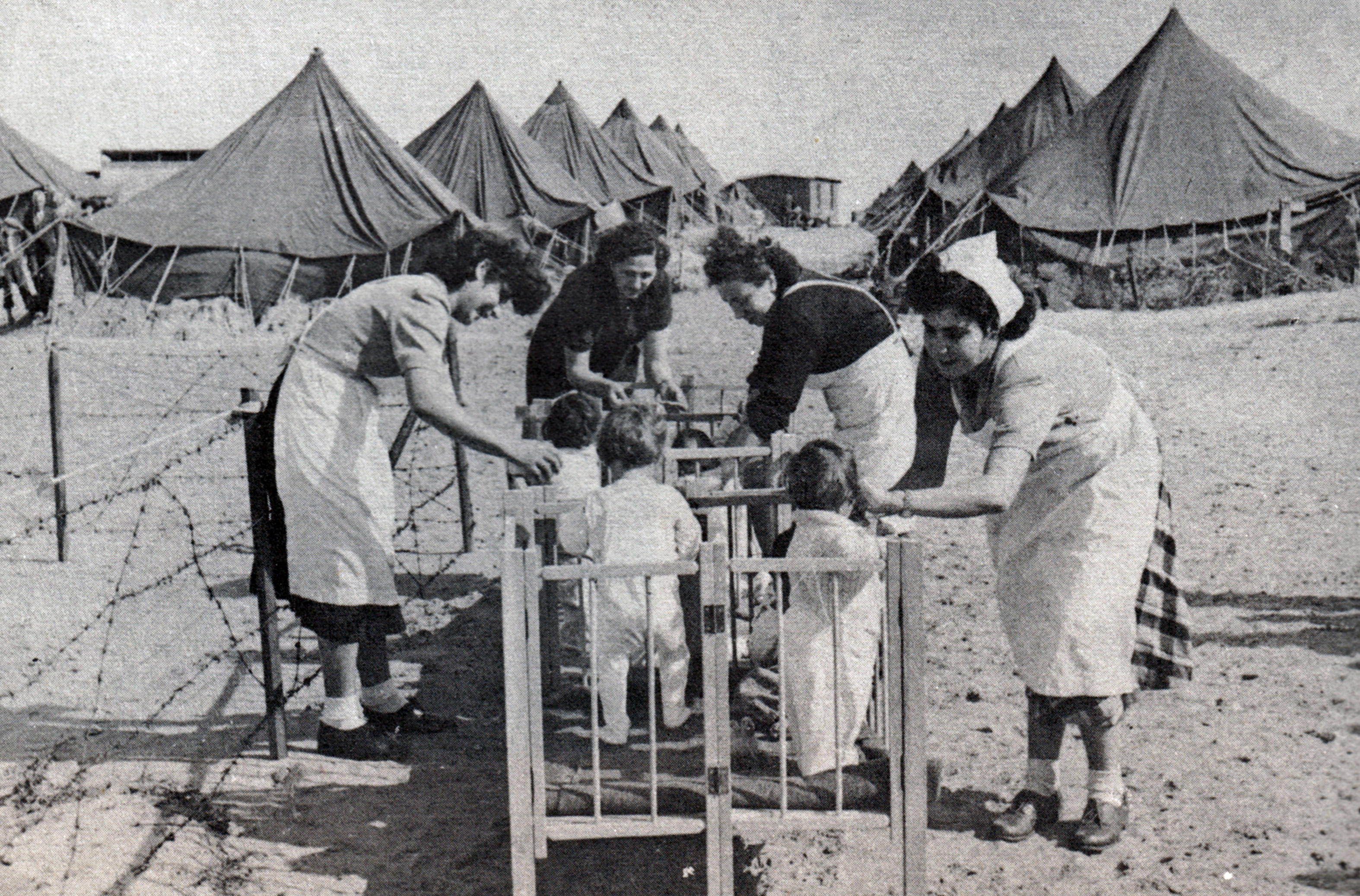 Nannies of the transfer camps